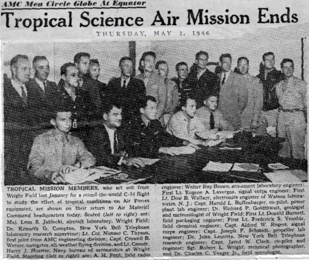 Army Air Force Scientific Research Team Returns From Around the Equator Expedition